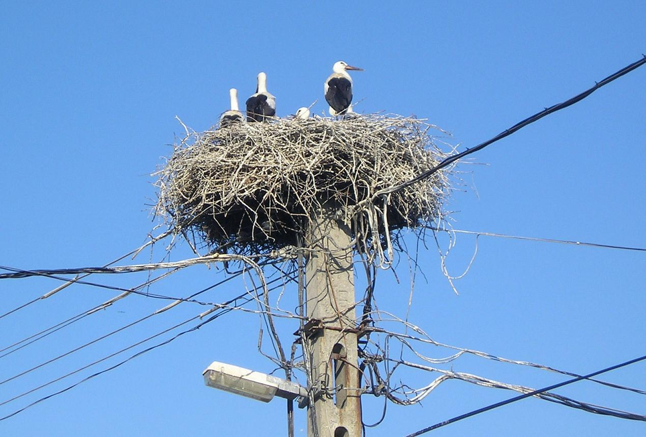 stork's nest with storks in Hungary - 2007